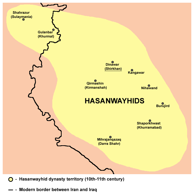 Hasanwayhid dynasty (10th-11th century).